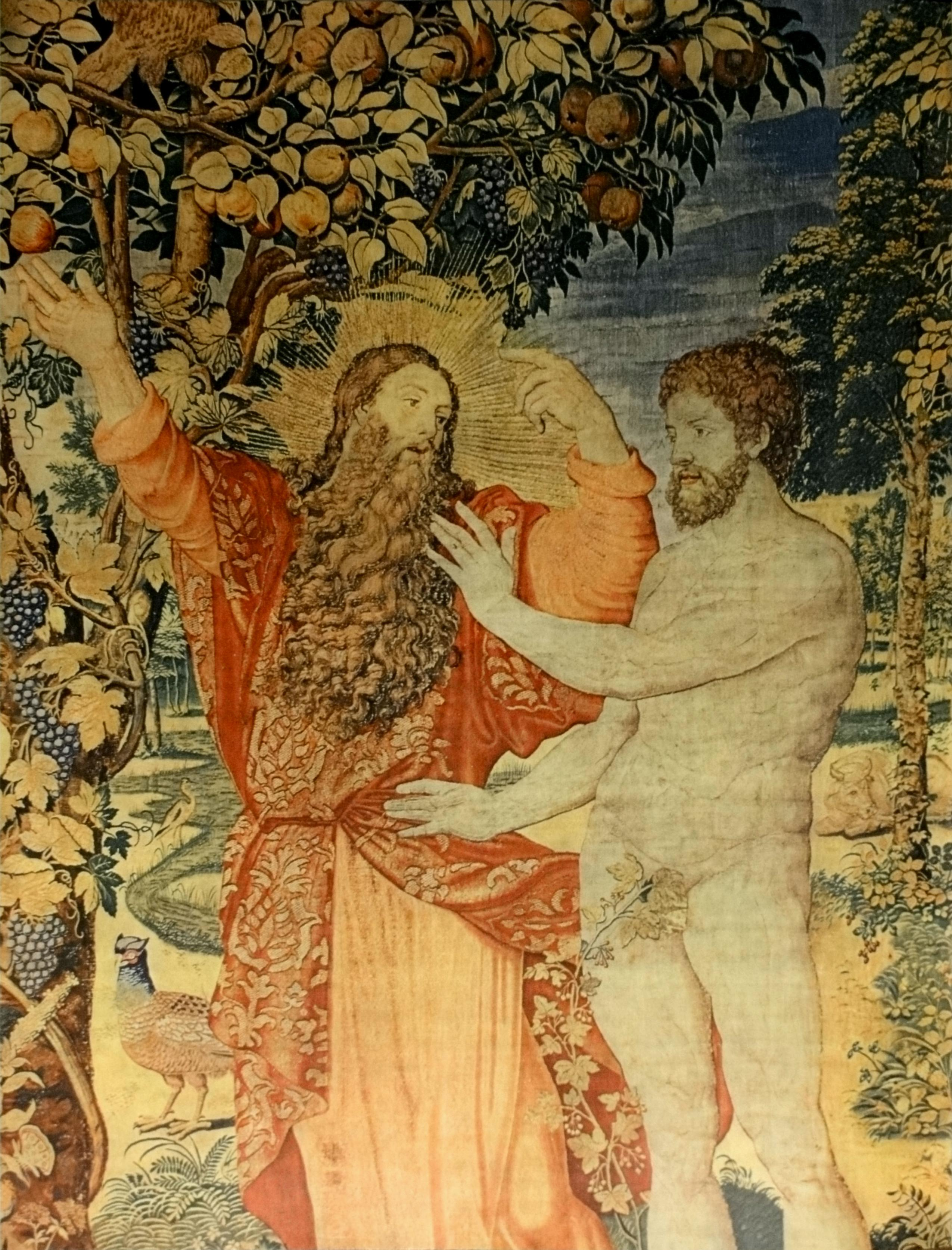 God forbidding Adam to eat from the tree of the knowledge of good and evil. Detail of Paradise Bliss, an arras (tapestry) woven in Brussels according to Michiel Coxie's design. Part of King Sigismund Augustus's collection of Wawel arrases.